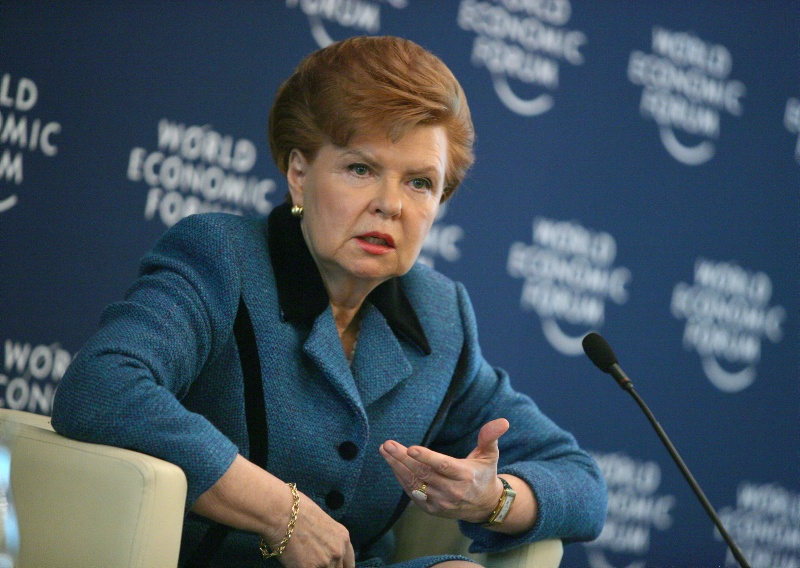 DAVOS/SWITZERLAND, 24JAN07 - Vaira Vike-Freiberga, President of Latvia captured during the session 'Update 2007: Addressing Global Fault Lines' at the Annual Meeting 2007 of the World Economic Forum in Davos, Switzerland, January 24, 2007. Copyright by World Economic Forum by E. T. Studhalter